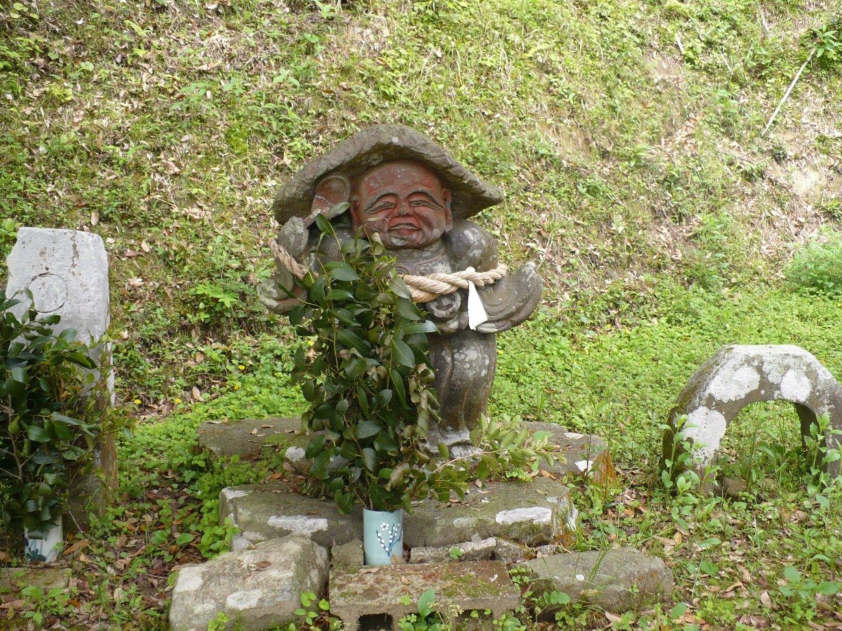 A statue of guardian angel of rice fields in Fureda, Aira town, Kagoshima prefecture Japan